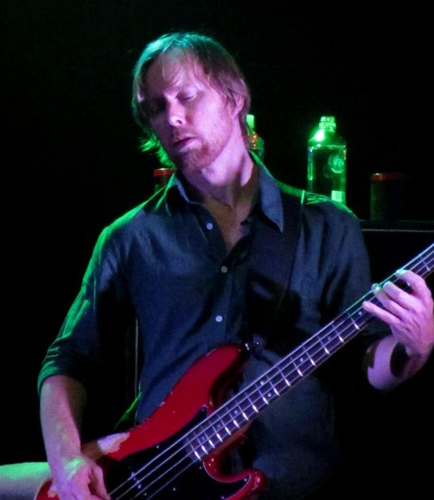 Tania Taylor